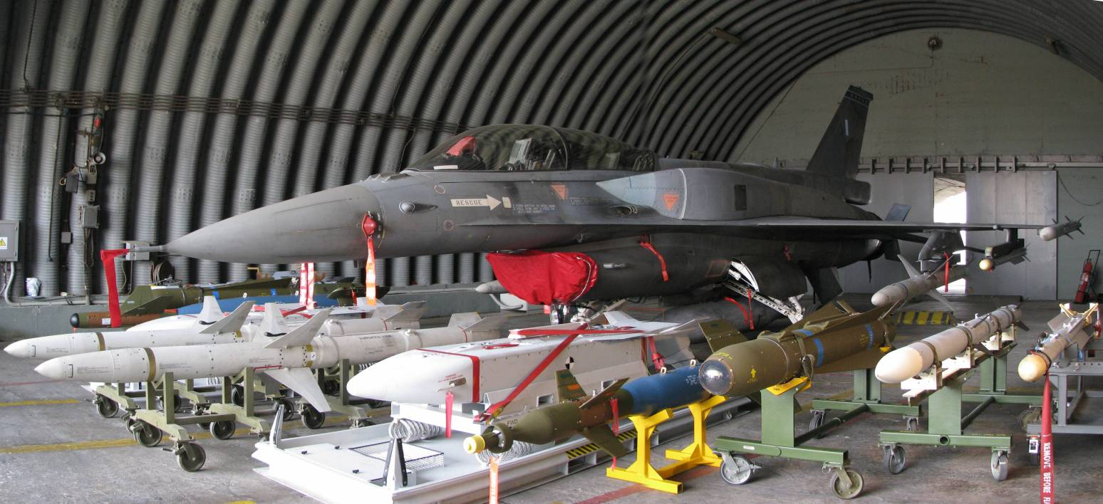 A Hellenic Air Force F-16D Fighting Falcon Block 52 displayed at the 2008 HAF air show, in Tanagra airbase, Greece